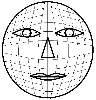 Simple schema of a 3D modelisation retrieved from a face recognition